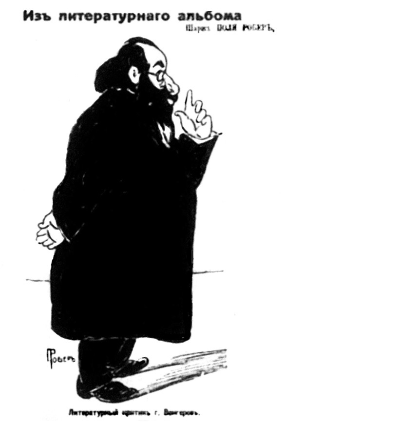 Literary critic S. A. Vengerov